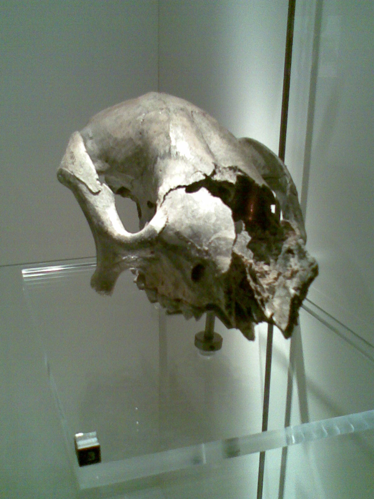 A second Neohelos stirtoni from the Victoria Museum.